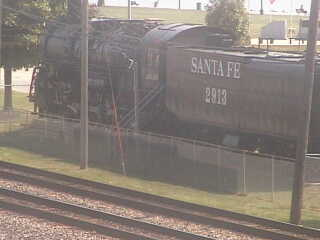 Santa Fe 4-8-4 locomotive Number 2913.